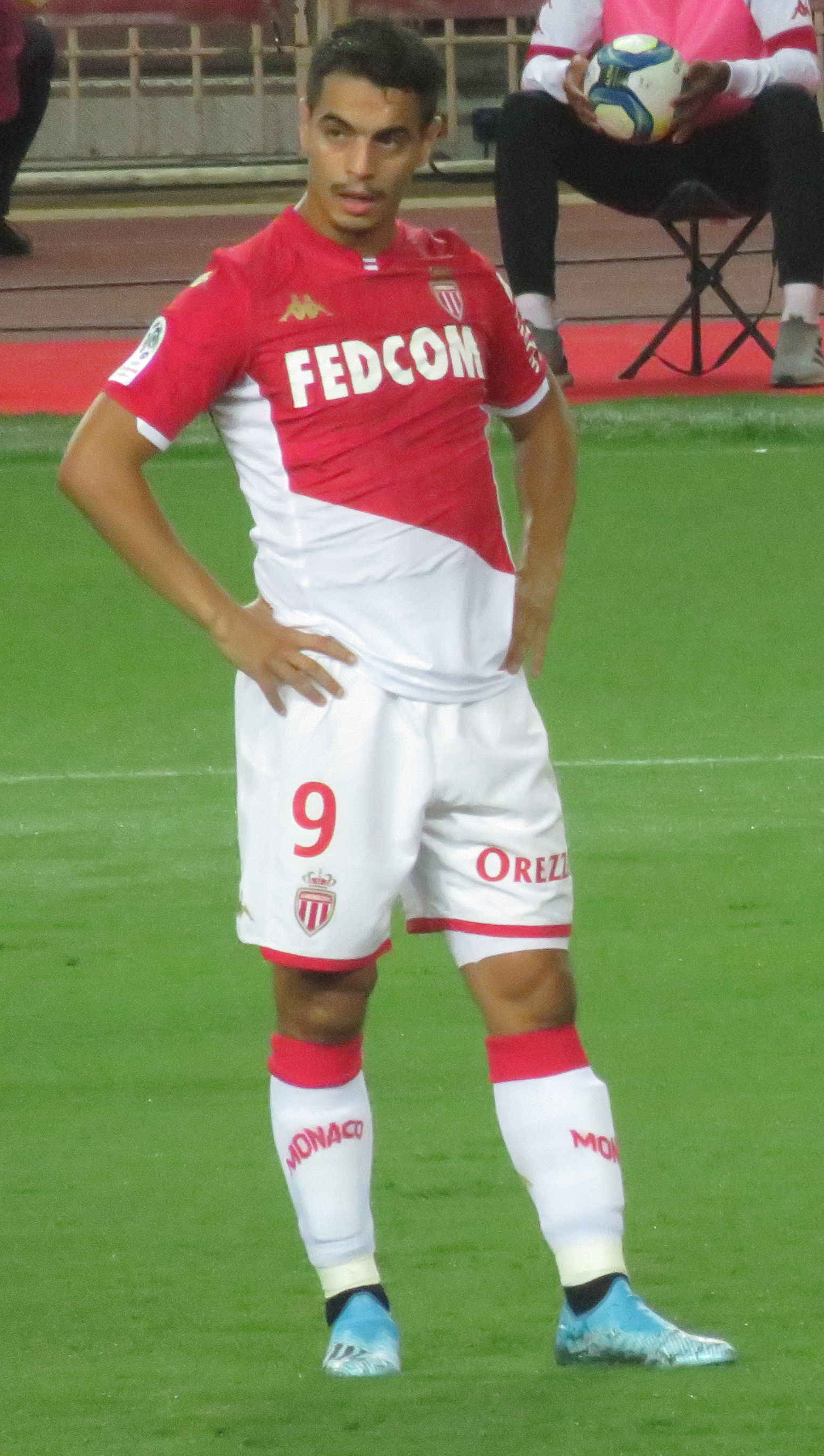 Wissam Ben Yedder, before shooting a penalty in the 17th minute of play Sunday, September 15, 2019 against Olympique de Marseille. He scored this penalty to give the advantage 1-0 to his team.